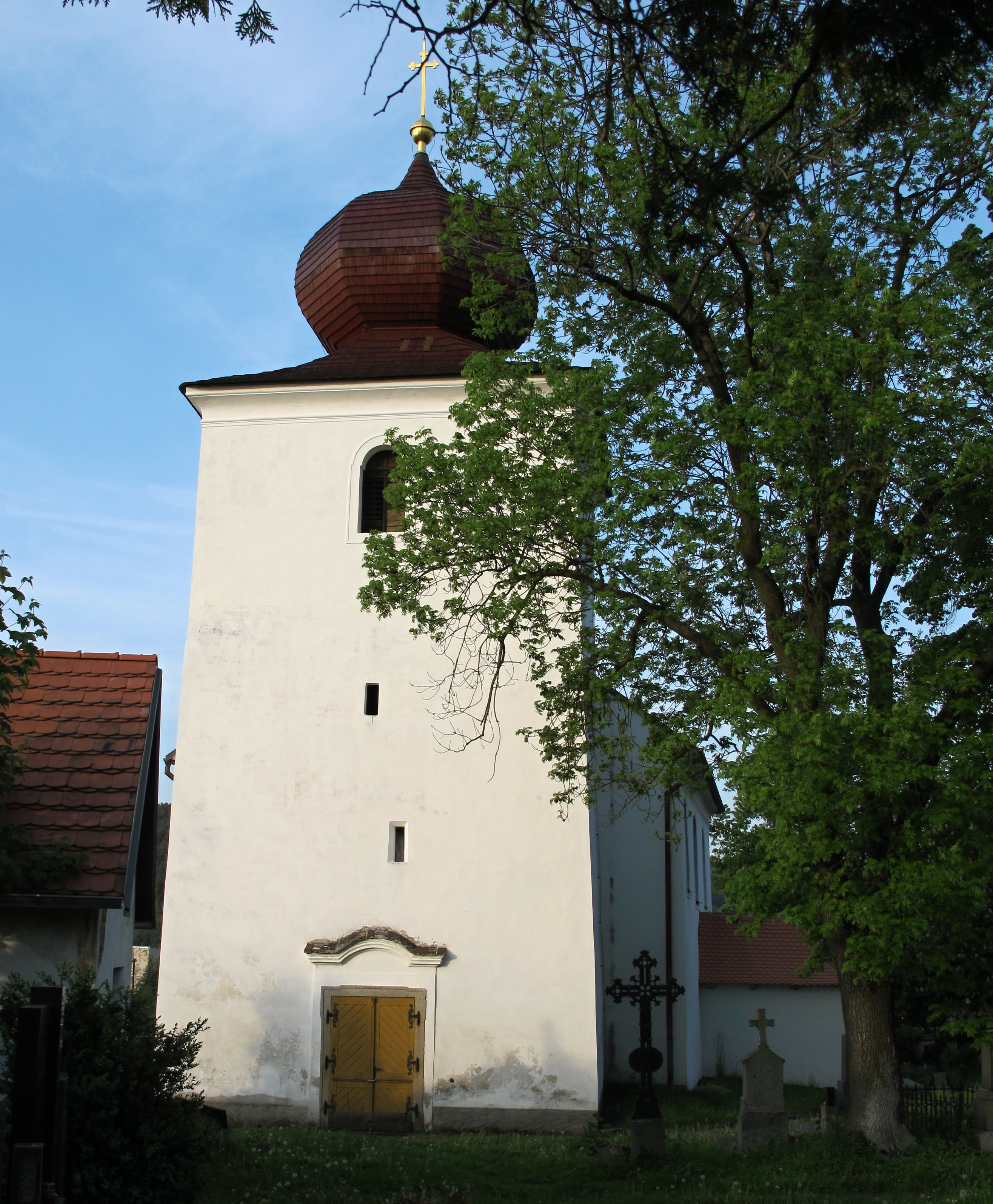 church in Kamýk nad Vltavou in Příbram District